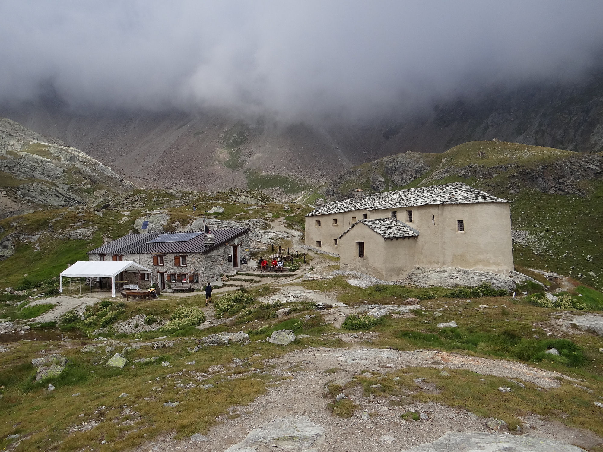 Mountain hut Oratorio di Cunéy, Pennine Alps, Aosta valley.